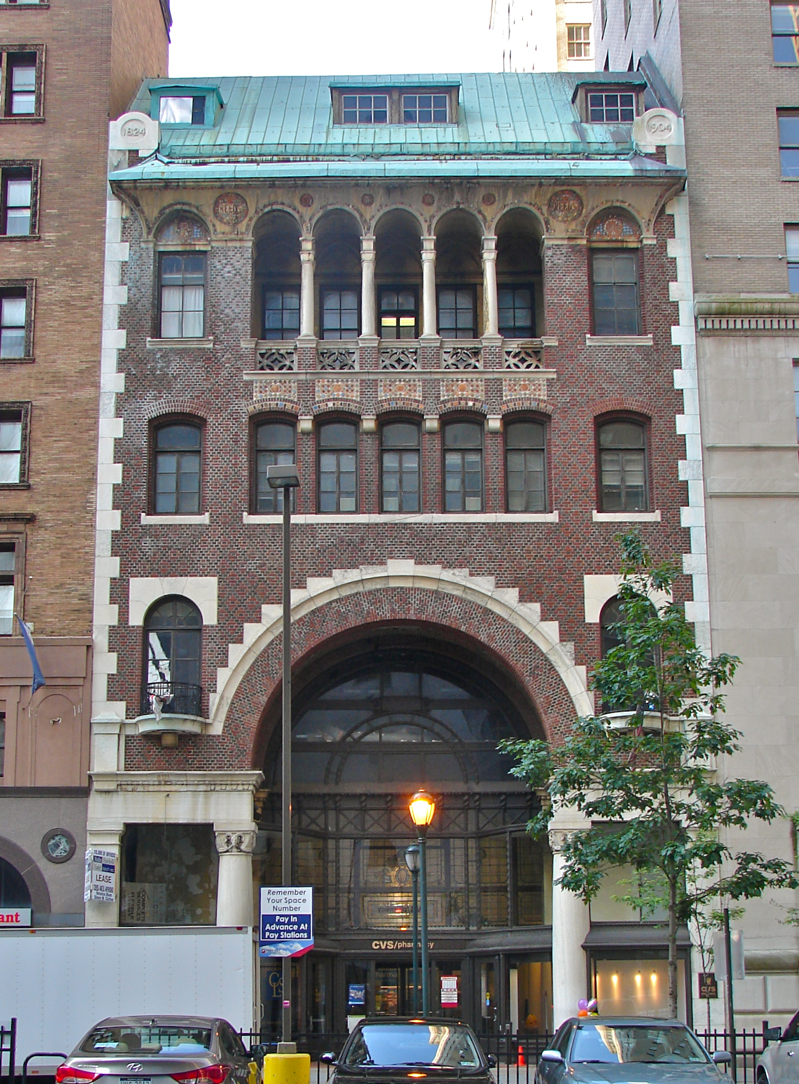 Reed's Store, 1424 Chestnut Street, in Center City, Philadelphia. Designed by Will Price of Price & McLanahan. Completed in 1903 (dates on top of building read 1824 (left), 1904 (right)) Early use of structural concrete. "Arts and Crafts" style, uses Murcer tiles (near top around the galleries). "Reeds" legible in tiles twice just under roof. In the Broad Street Historic District, on the NRHP since 1984. Coords for this particular building are 39.951045,-75.165217